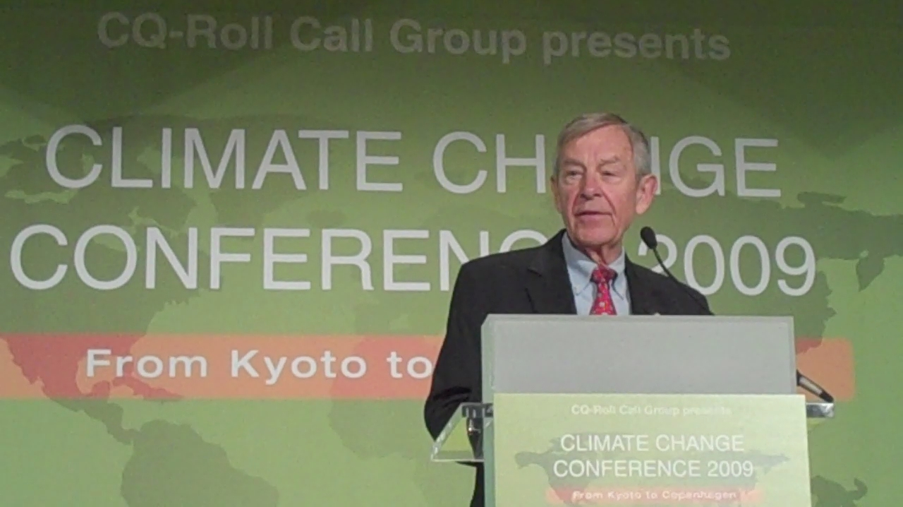 “Why in the world would you want to incent natural gas? Because if you do, what happens is you take the heat off developing nuclear and coming up with CCS,” said Senator Voinovich.